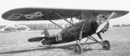 A Rogožarski SIM-X of the Royal Yugoslavian Air Force